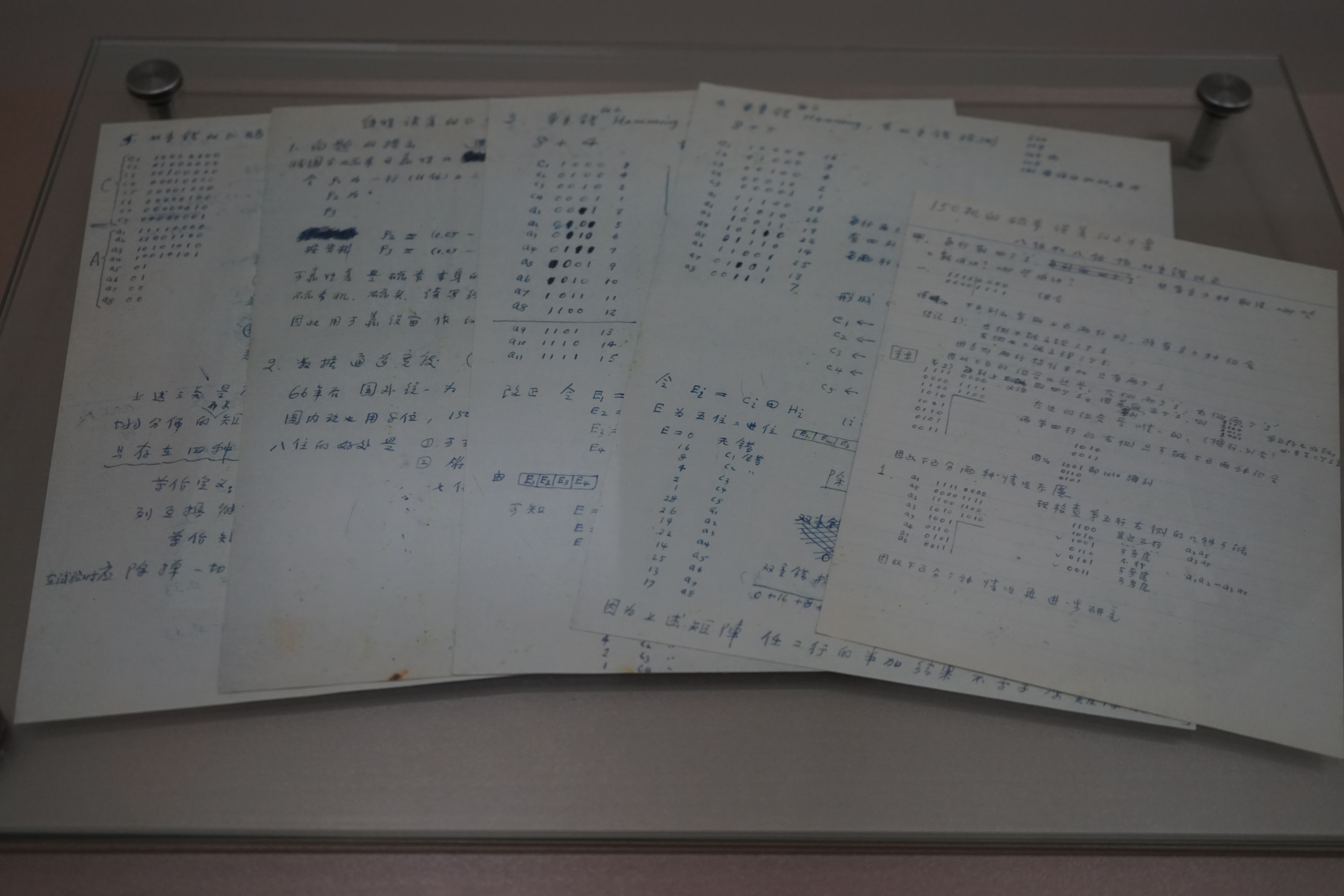 error-correcting scheme for computer 150 autograghed by Wang Xuan